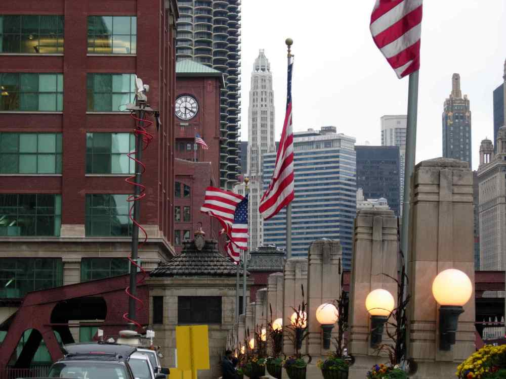 Behind the Merchandise Mart, in downtown Chicago